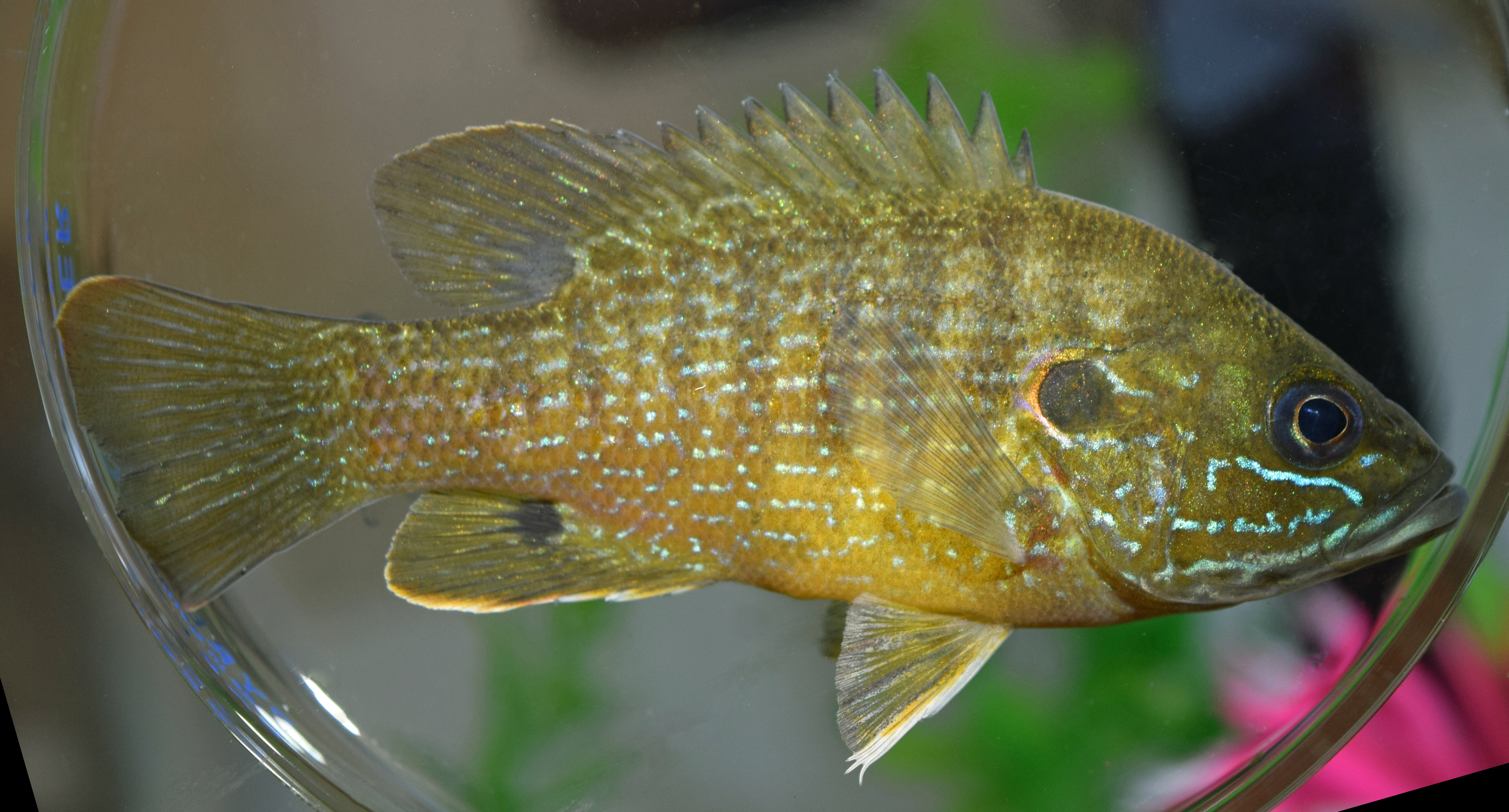 A Lepomis cyanellus (green sunfish) at the University of Mississippi Field Station.